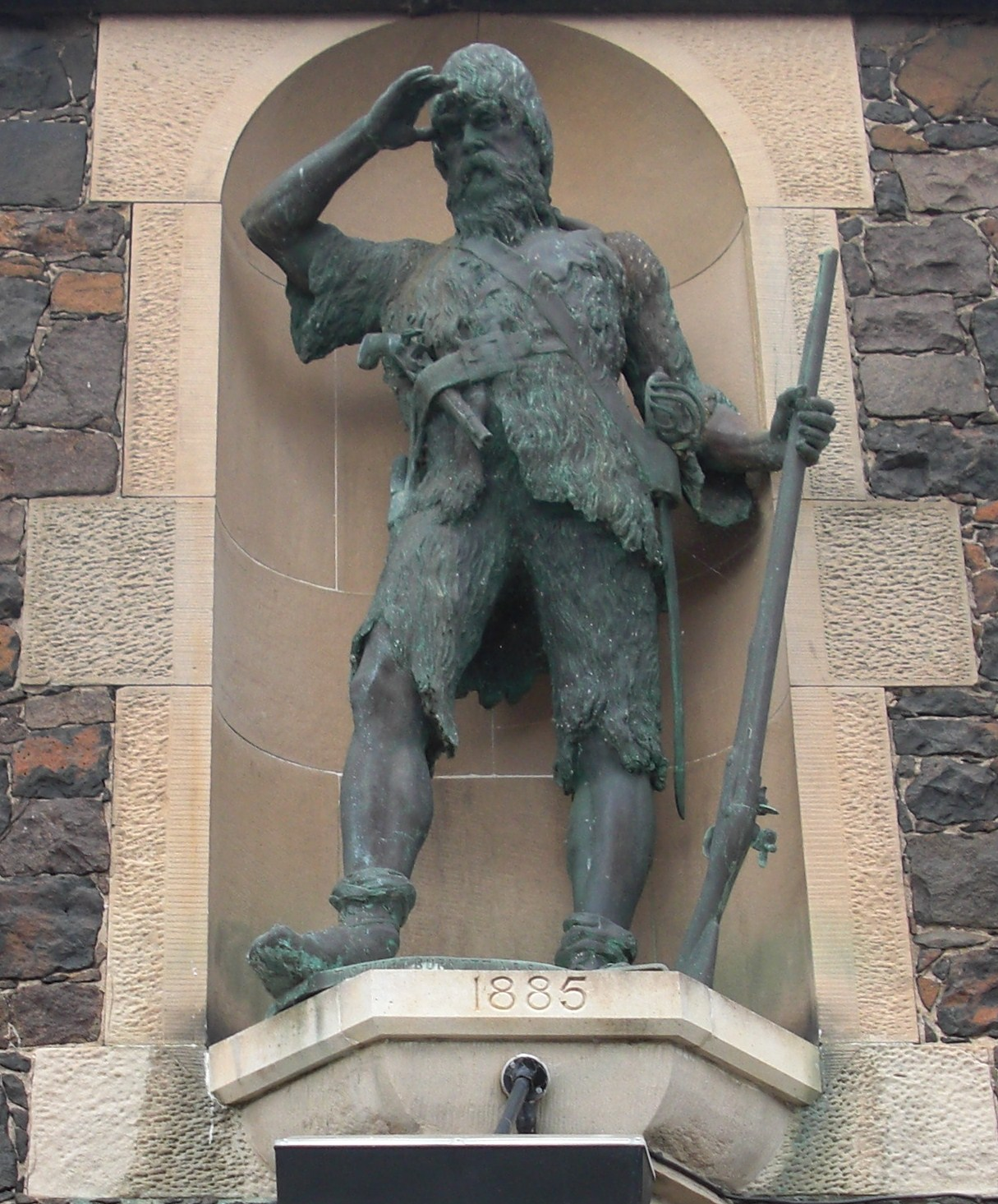 Statue of Alexander Selkirk at the site of his original house on Main Street, Lower Largo Fife, Scotland